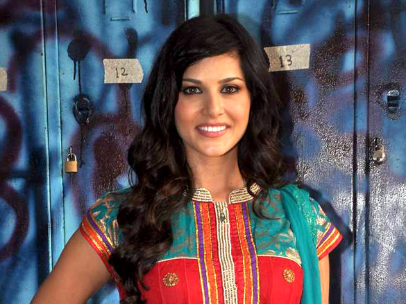 Sunny Leone at Bigg Boss series, India